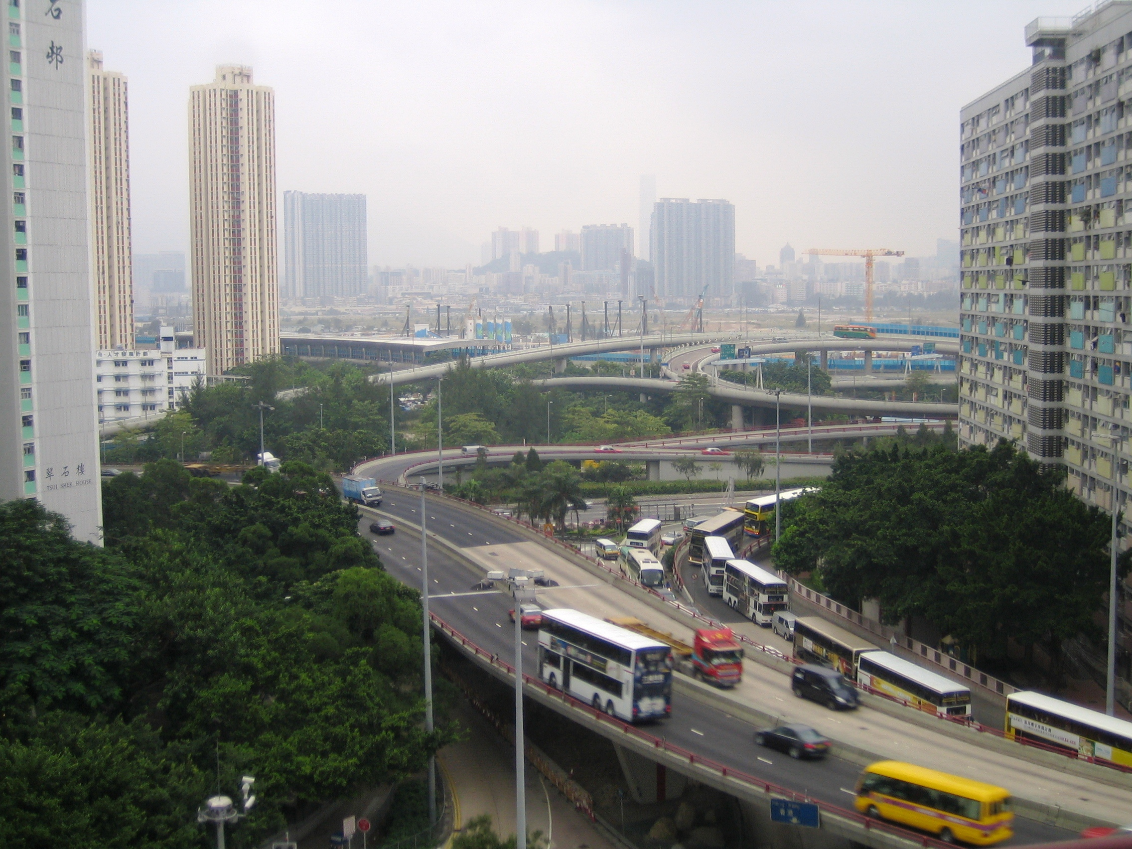 This image is the view of Choi Hung Interchang which is taken from Ngau Chi Wan Municipal Services Building, Hong Kong. If you have any questions about the licensing (like cc-by-sa, GFDL), or you want to republish the image without using the licensing shown as below, you are welcome to leave a message on the User Talk Page of my Chinese Wikipedia account. 中文（香港）: 這照片是彩虹交匯處，拍攝地點是香港九龍牛池灣市政大廈。 如你對這照片版權許可協議 (例cc-by-sa, GFDL) 有疑問，或你想把照片不用以下的版權協議轉載，歡迎你到我在中文維基百科的用戶對話頁留言。